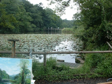 A photo of a section of lotus pond at Shakujii Kōen, a public park in Nerima-ku, Tokyo. Photo taken by myself, LordAmeth, in August 2003.